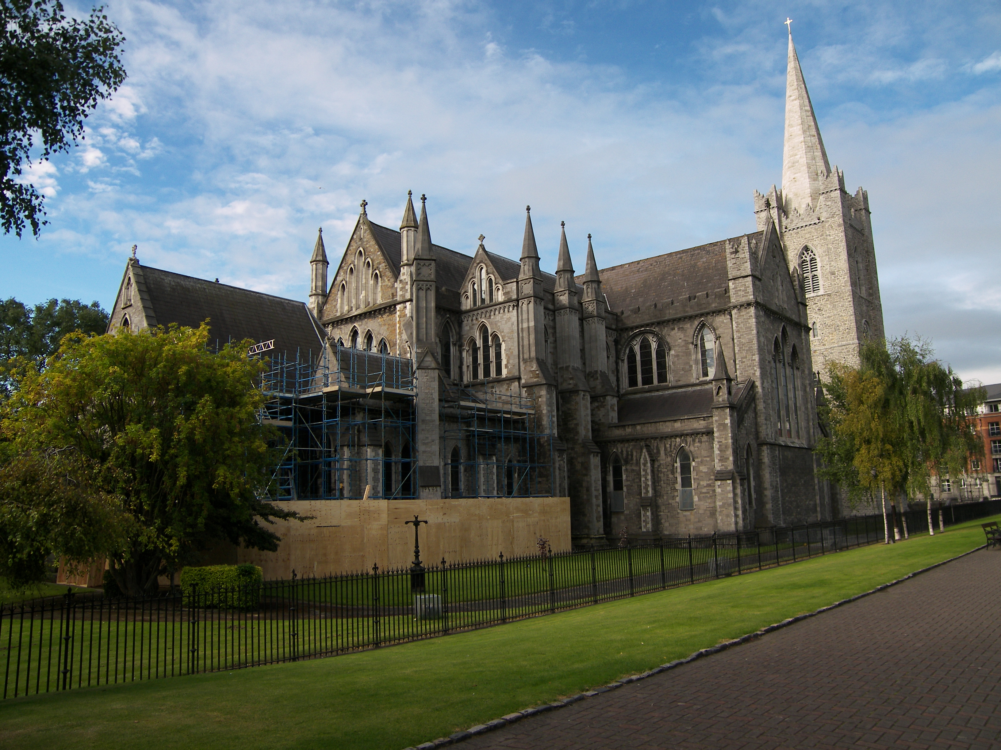 view of St Patrick's Cathedral with some scaffolding